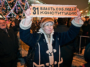 Action in defense of Article 31 (Freedom of assembly) of the Russian Constitution. Moscow, December 31, 2009.